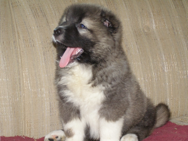 Caucasian Ovcharka